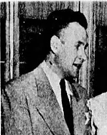 RELIGIOUS FILM PRODUCERS - Paul F. Heard (left), Protestant Film Commission producer, discusses the script of Second Chance with his stars, Ruth Warrick and John Hubbard, on the set at Nassour Studios.